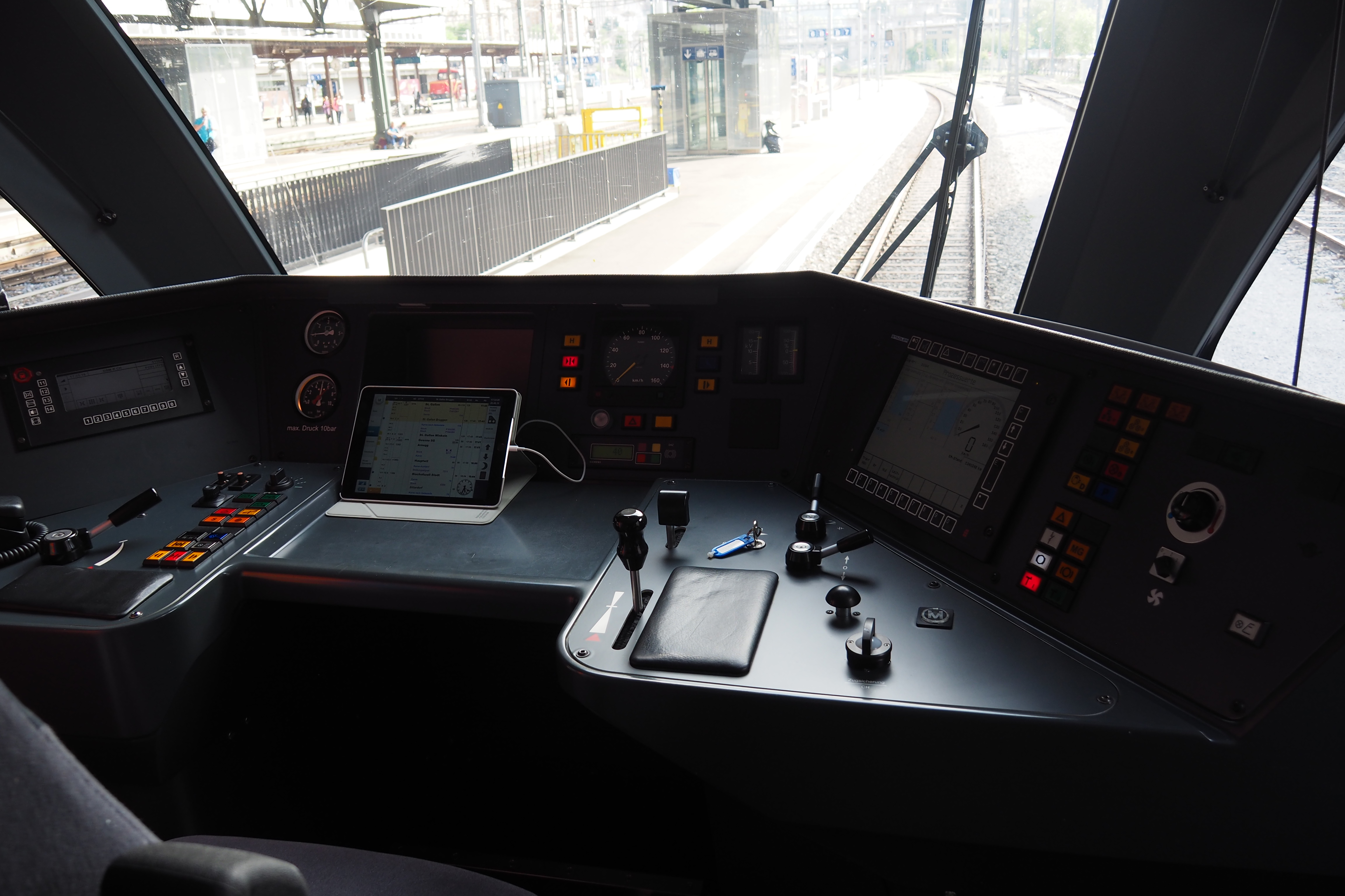 Photo of driver's cab of Thurbo Stadler GTW (RABe 526 799) at Sankt Gallen main station (2019)